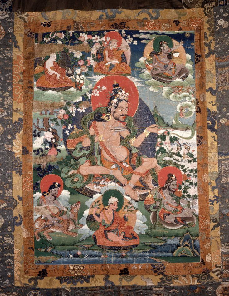 Scroll painting of the Mahāsiddha Saraha. British Museum, number 1956,0714,0.40